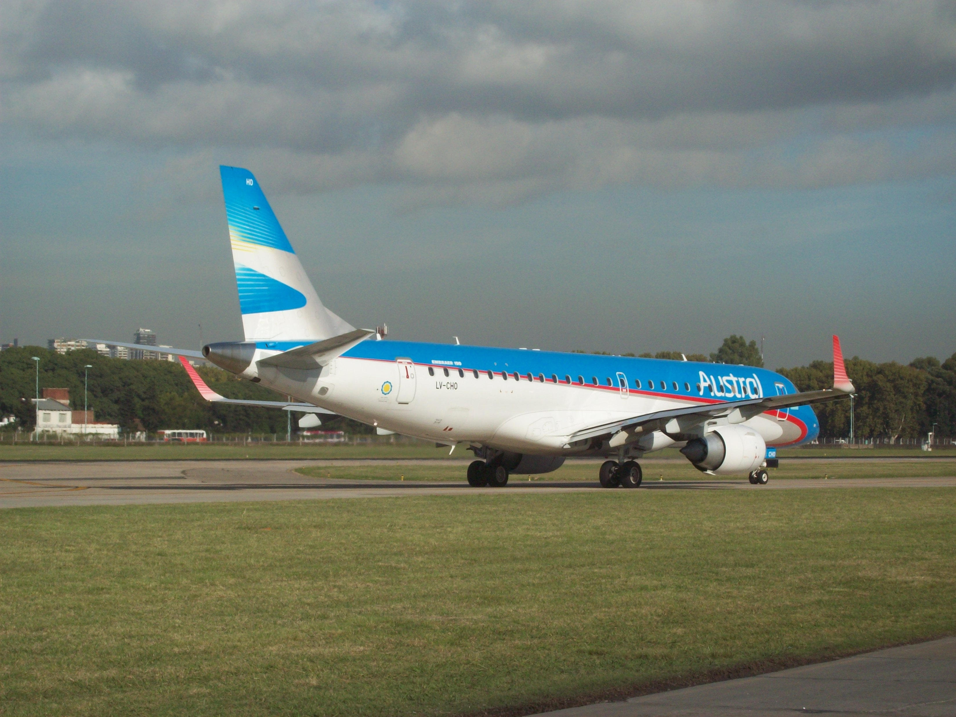 LV-CHO, an Austral Líneas Aéreas Embraer 190, is seen here taxiing at Aeroparque Jorge Newbery (AEP/SABE).